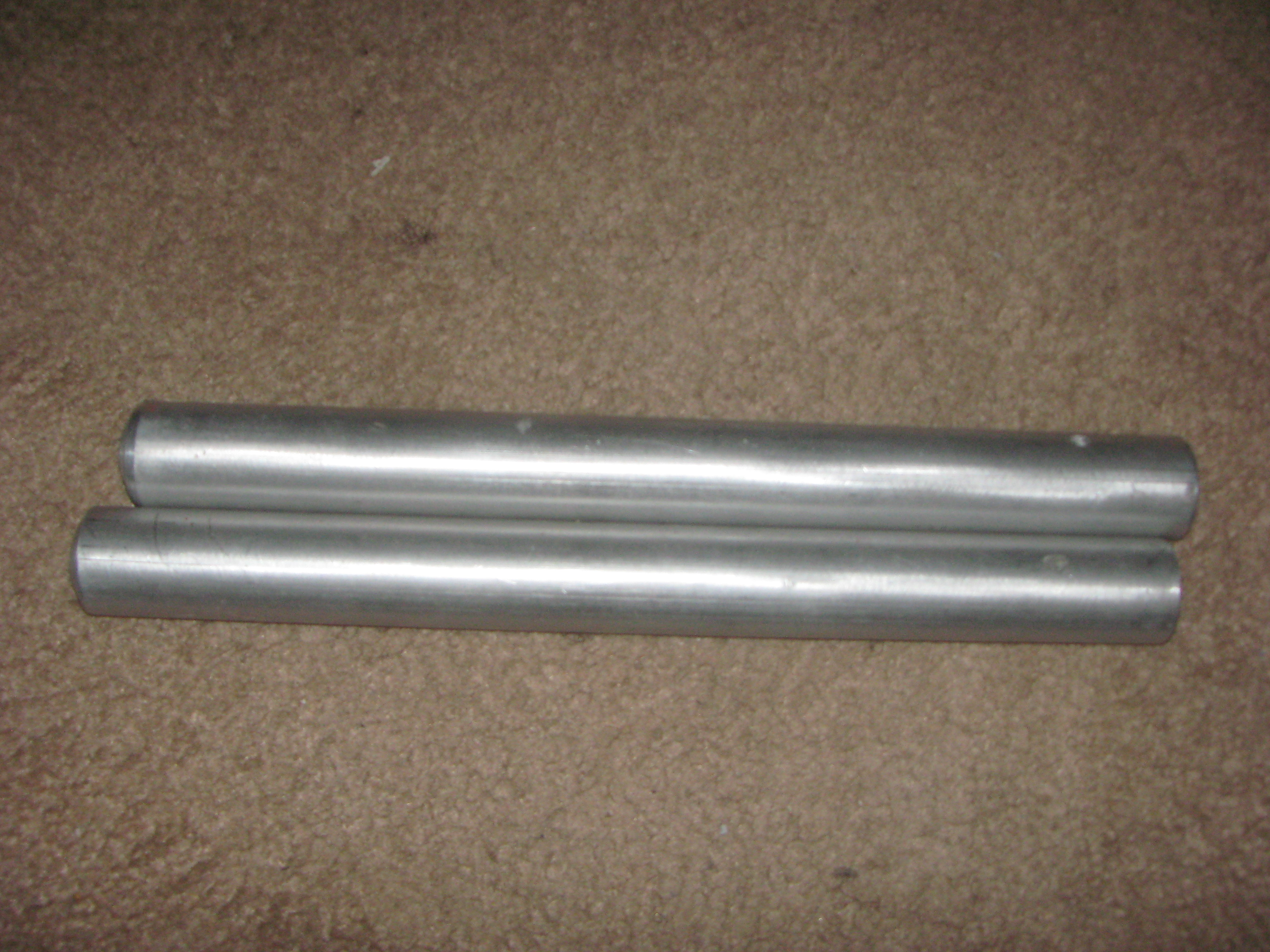 Solid metal nunchucks (unlinked)